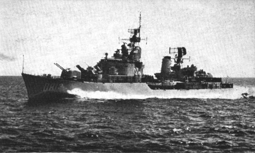 The Dutch Friesland-class destroyer Hr.Ms. Groningen (D813) underway, circa 1959.